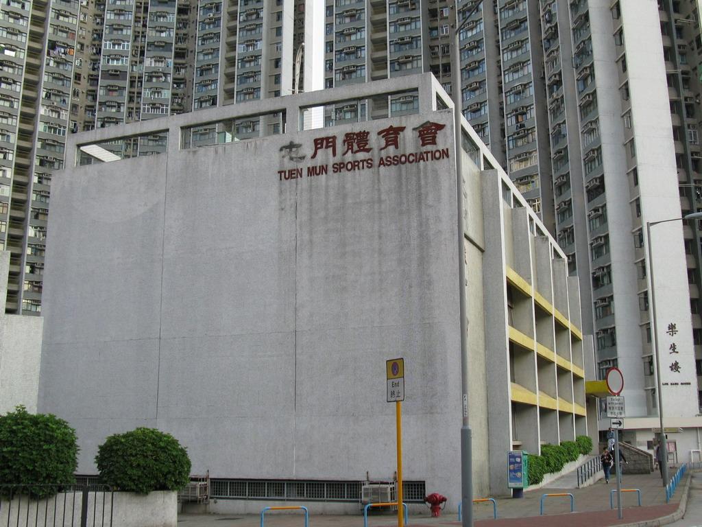 Kin Sang Community Hall / Tuen Mun Sports Association